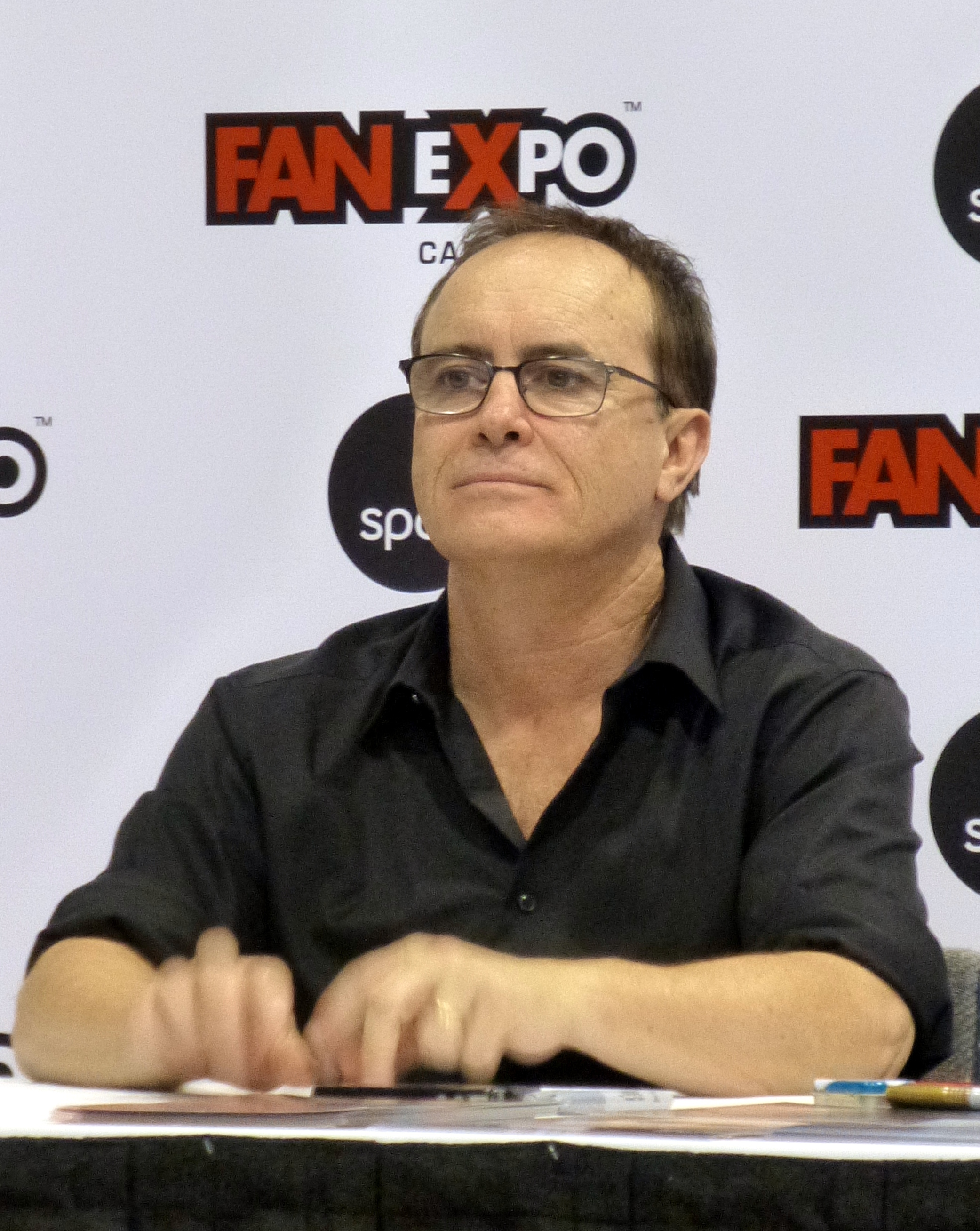 Jeffrey Combs